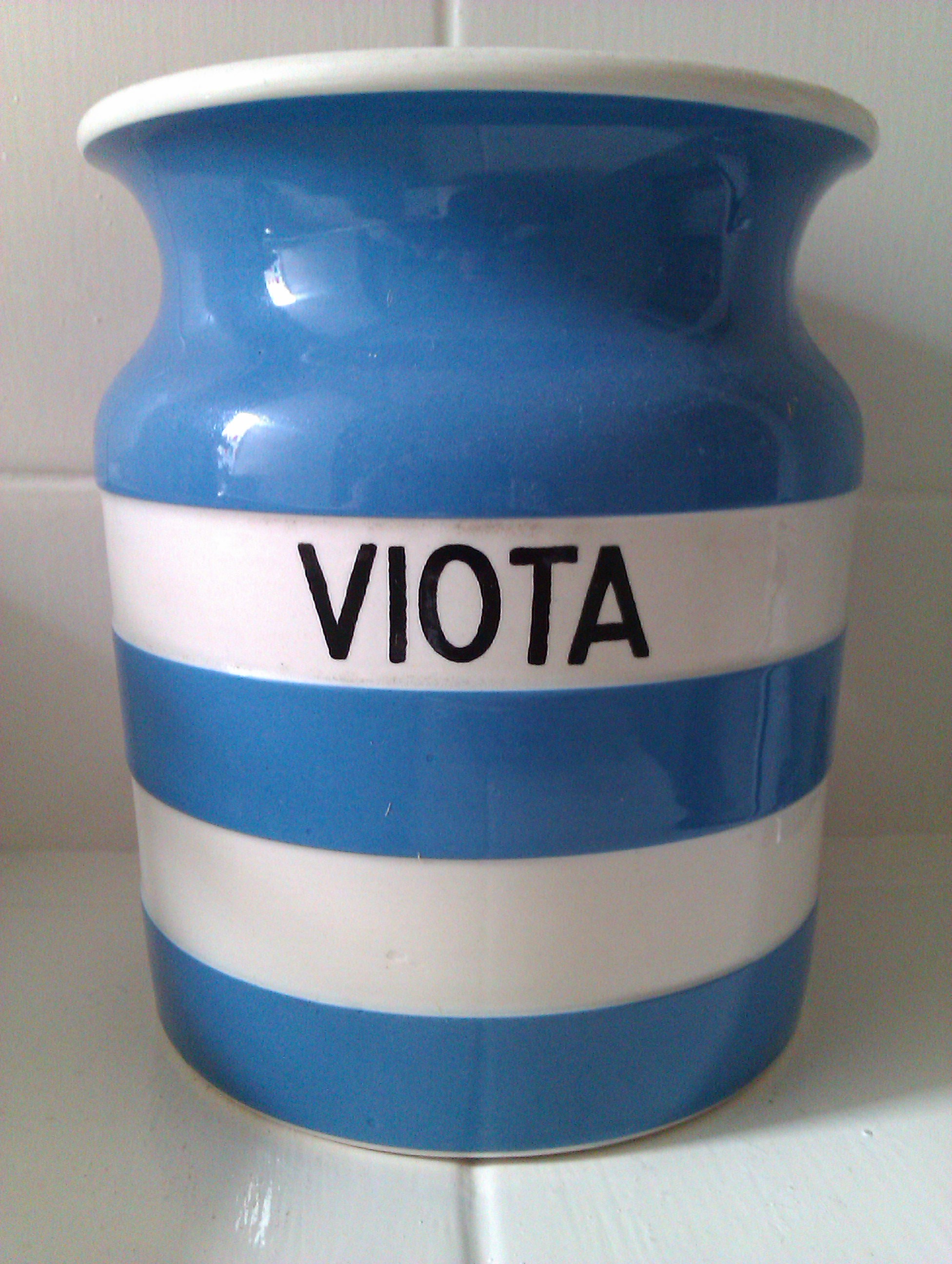 A traditional Cornish Ware Household Jar